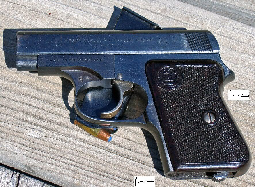 1947 Manufacture CZ45